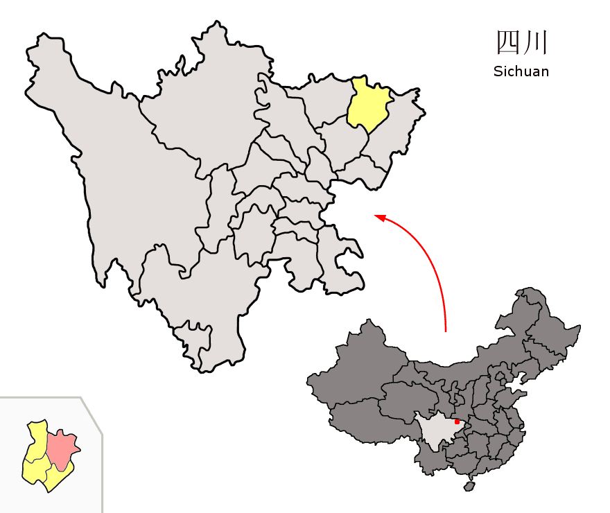 Location of Tongjiang County (pink) and Bazhong Prefecture (yellow) within Sichuan province of China Map drawn in october 2007 using various sources, mainly : Sichuan province administrative regions GIS data: 1:1M, County level, 1990 Sichuan Counties map from